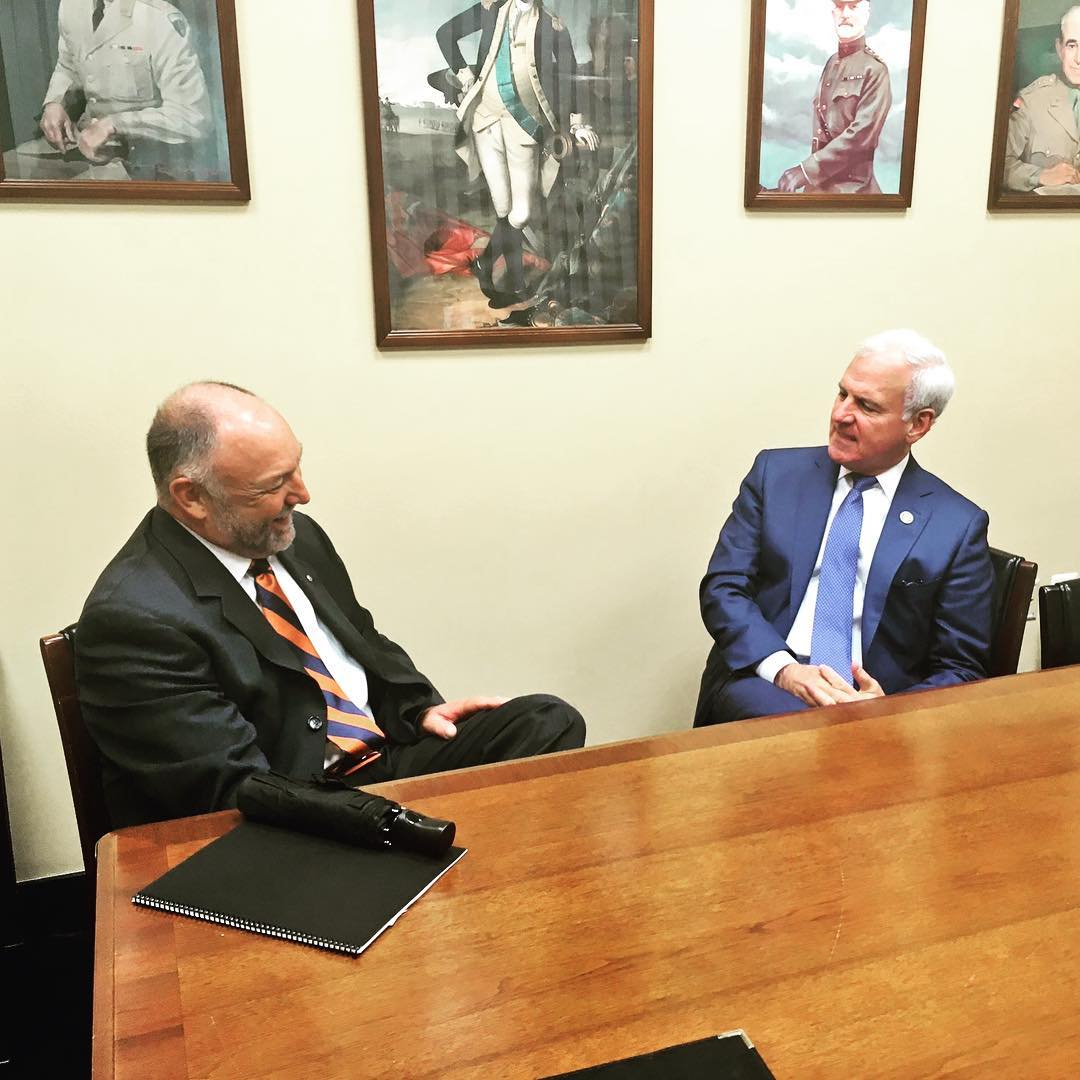 Wonderful to meet new @AuburnU President, Dr. Steven Leath! Look forward to working with you to support Auburn's federal priorities. #WarEagle